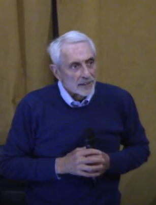 Corrado Lamberti in 2018 - image from YT video in CC-BY license - changes made: digitally cropped